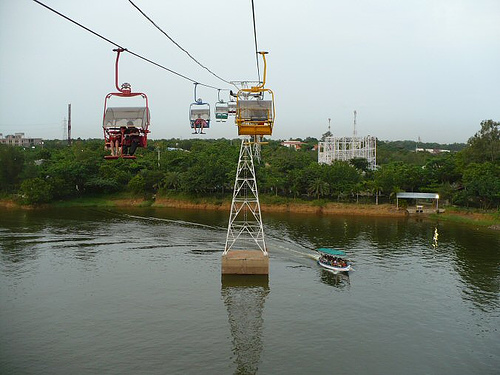 Cable Car